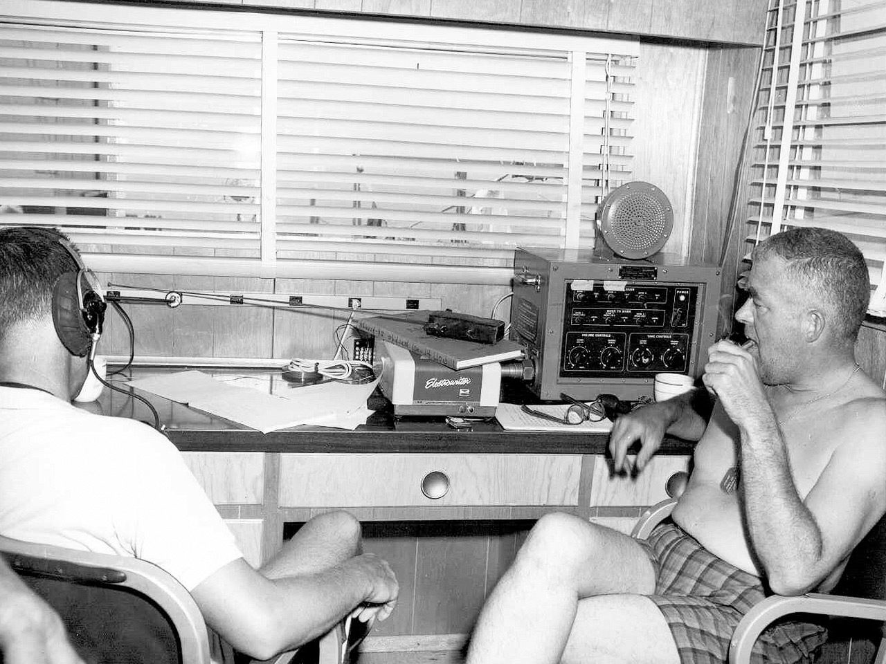 Communication Center for SEALAB I; Drs. Walter Mazzone and George Bond